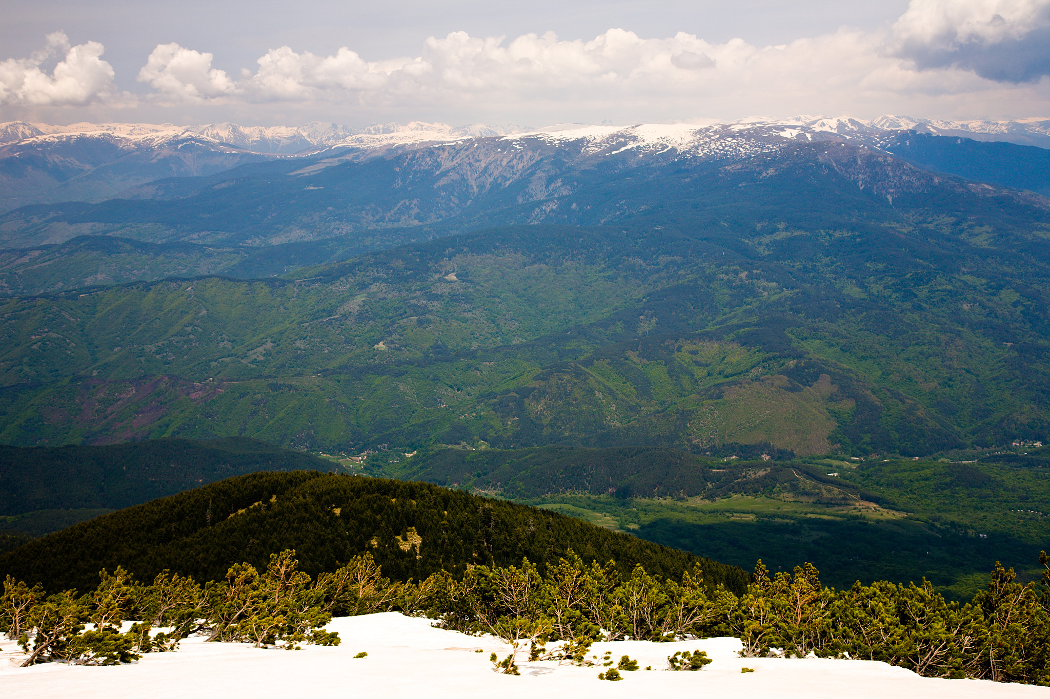 The Predel saddle as seen from Pirin summit in Pirin mountain, Bulgaria.